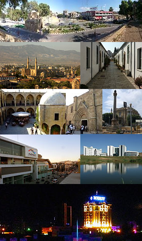 A collage of North Nicosia. From top to bottom, left to right: The Kyrenia Gate and the İnönü Square, Selimiye Mosque, historical Samanbahçe neighborhood, the Büyük Han, Bedesten, Sarayönü and the Venetian Column, the entertainment center of Dereboyu, the Near East Medical School, part of North Nicosia skyline at night